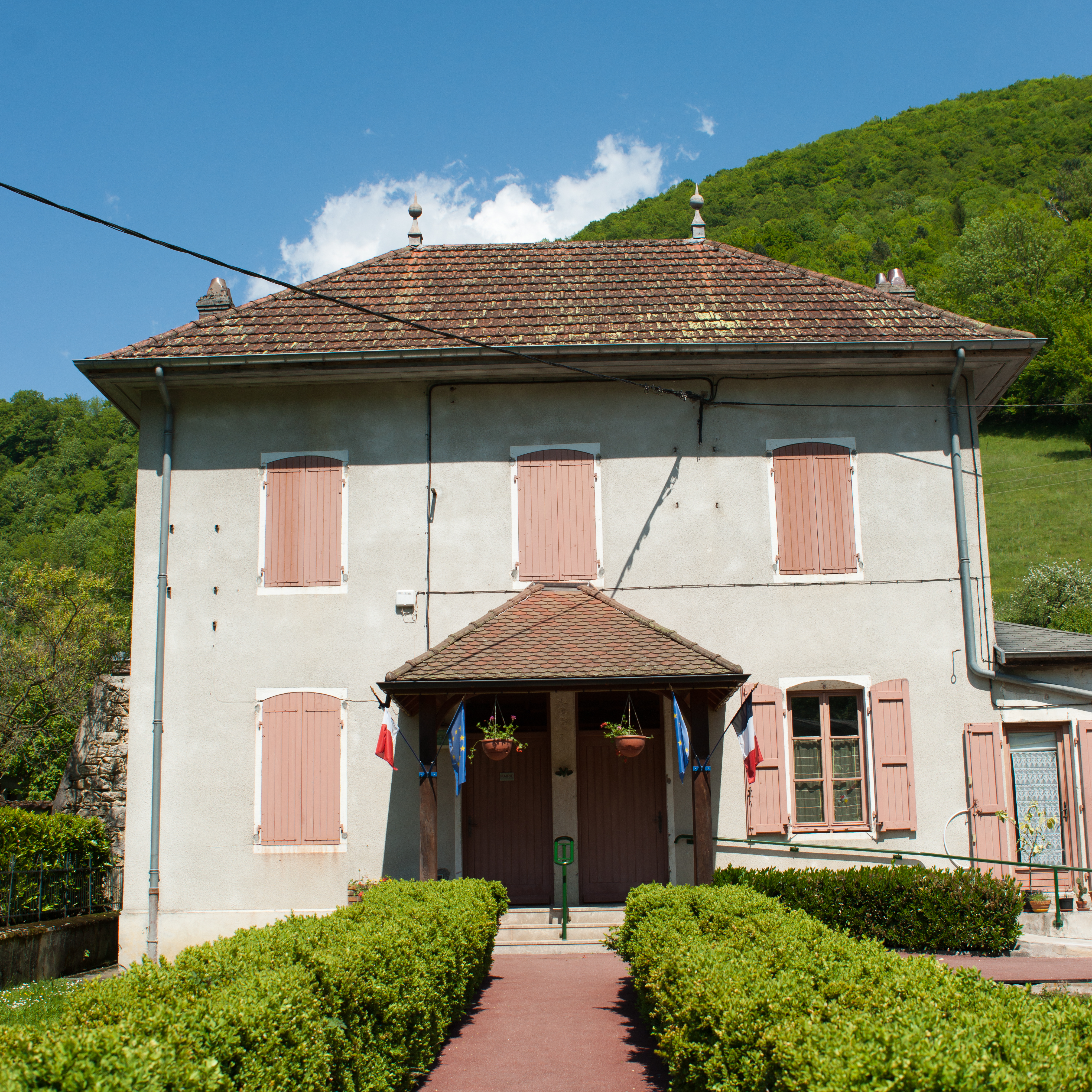 Townhall of Conand, France.